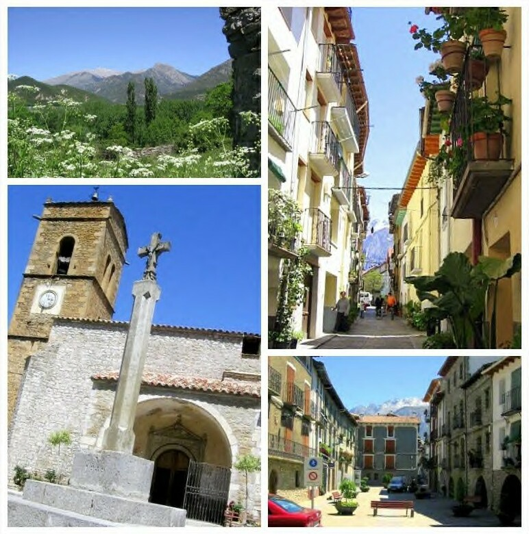 Mosaic of Villa de Campo, Huesca, Spain. Author: bjmspangler. Mosaic composed of 4 images taken by me on 5/19/05 [Images IMG_0191.jpg "Cotiella"; IMG_017511.jpg "Church"; IMG_020411.jpg "Plaza"; IMG_021411.jpg "Calle el Ballo"]. Images edited in Picasa and compiled into 2x2shadow Mosaic with FlickrToys on 2/15/2006 2:05pm PST. Por favor citar fuente y autor al usar esta imagen fuera del wiki Please quote source & author when using this image outside of wiki